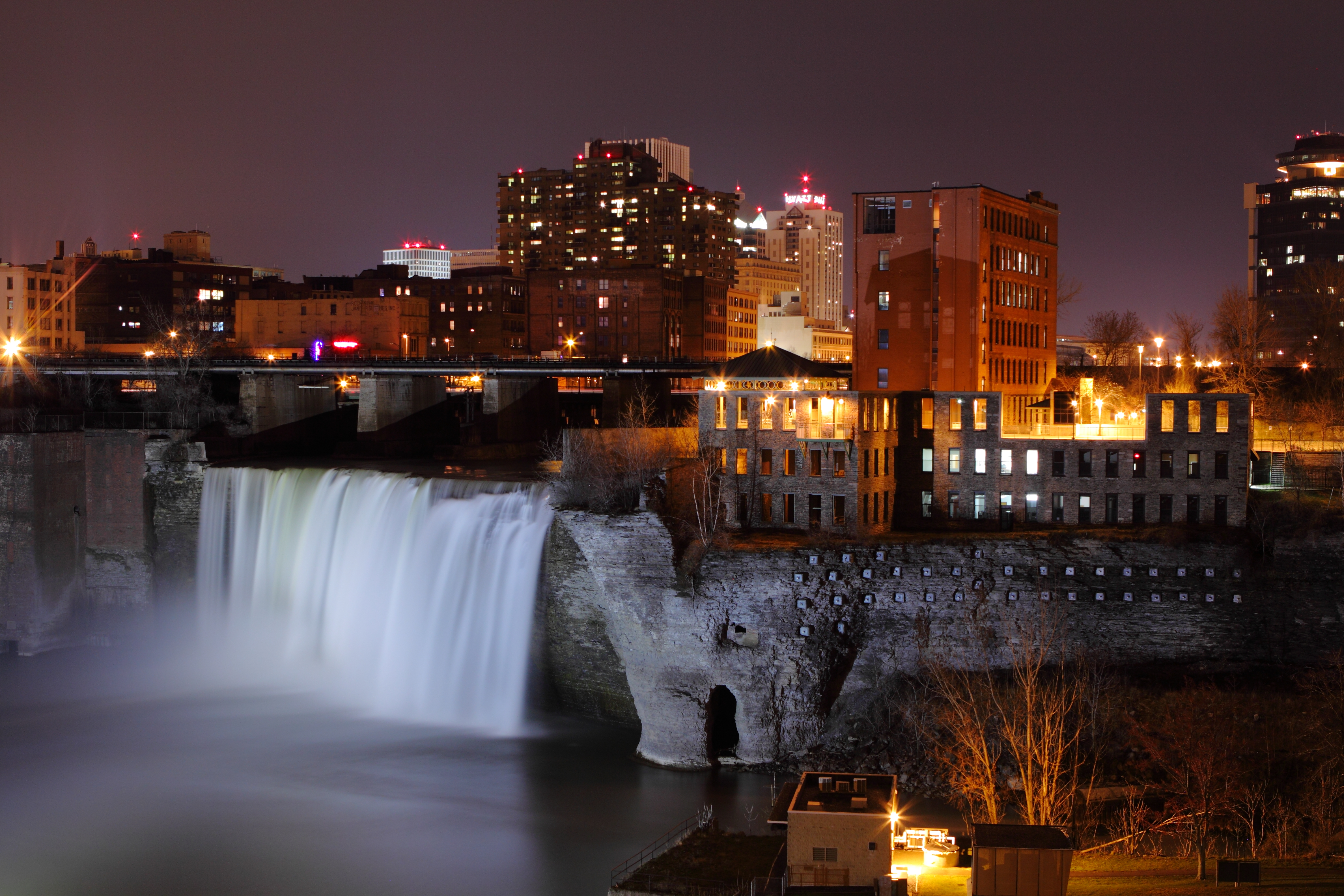 High Falls in Downtown Rochester, New York